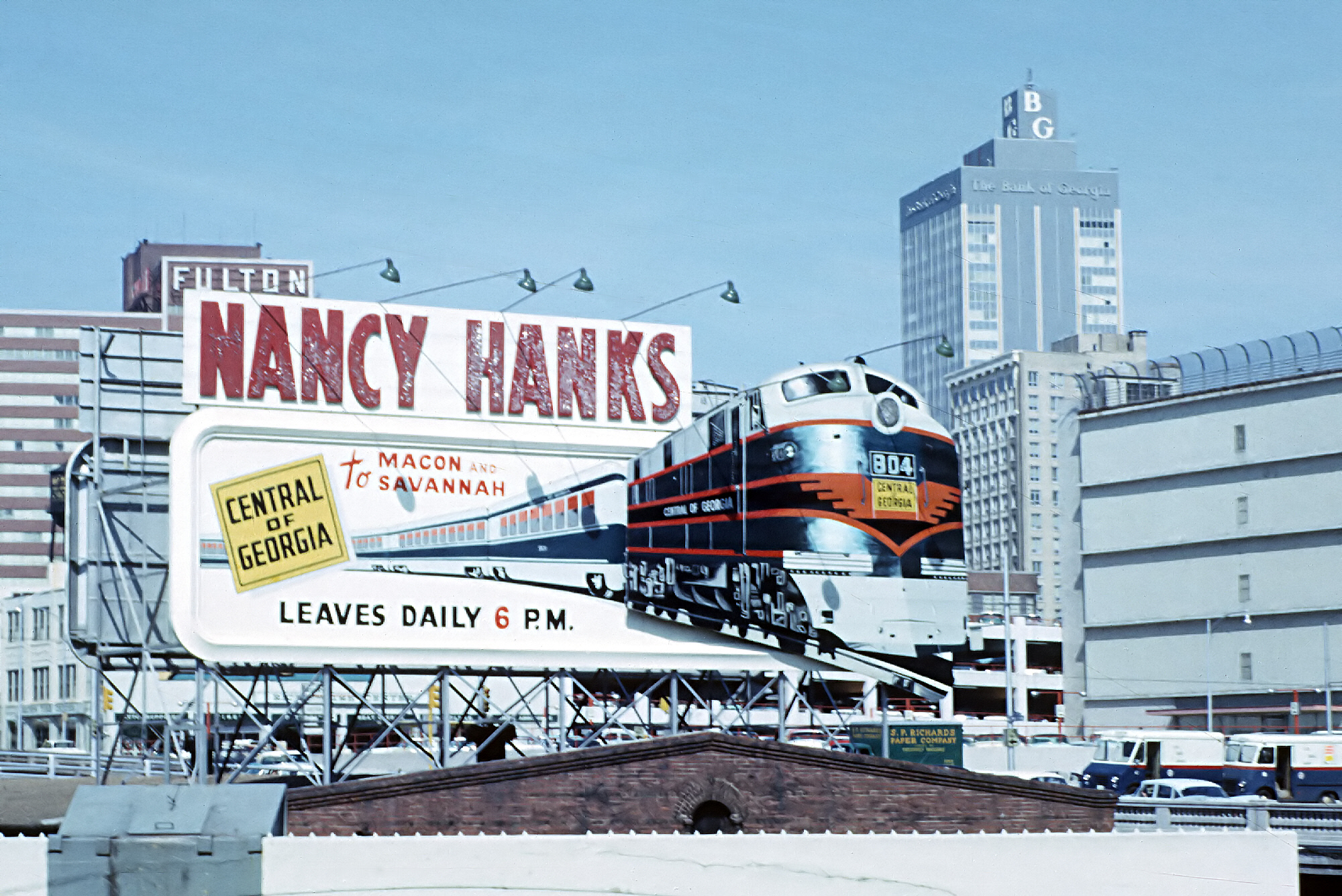 Sign advertising Central of Georgia Railway's feature train, The Nancy Hanks II, at the Terminal Station in Atlanta, GA on April 12, 1963. A Roger Puta Photograph